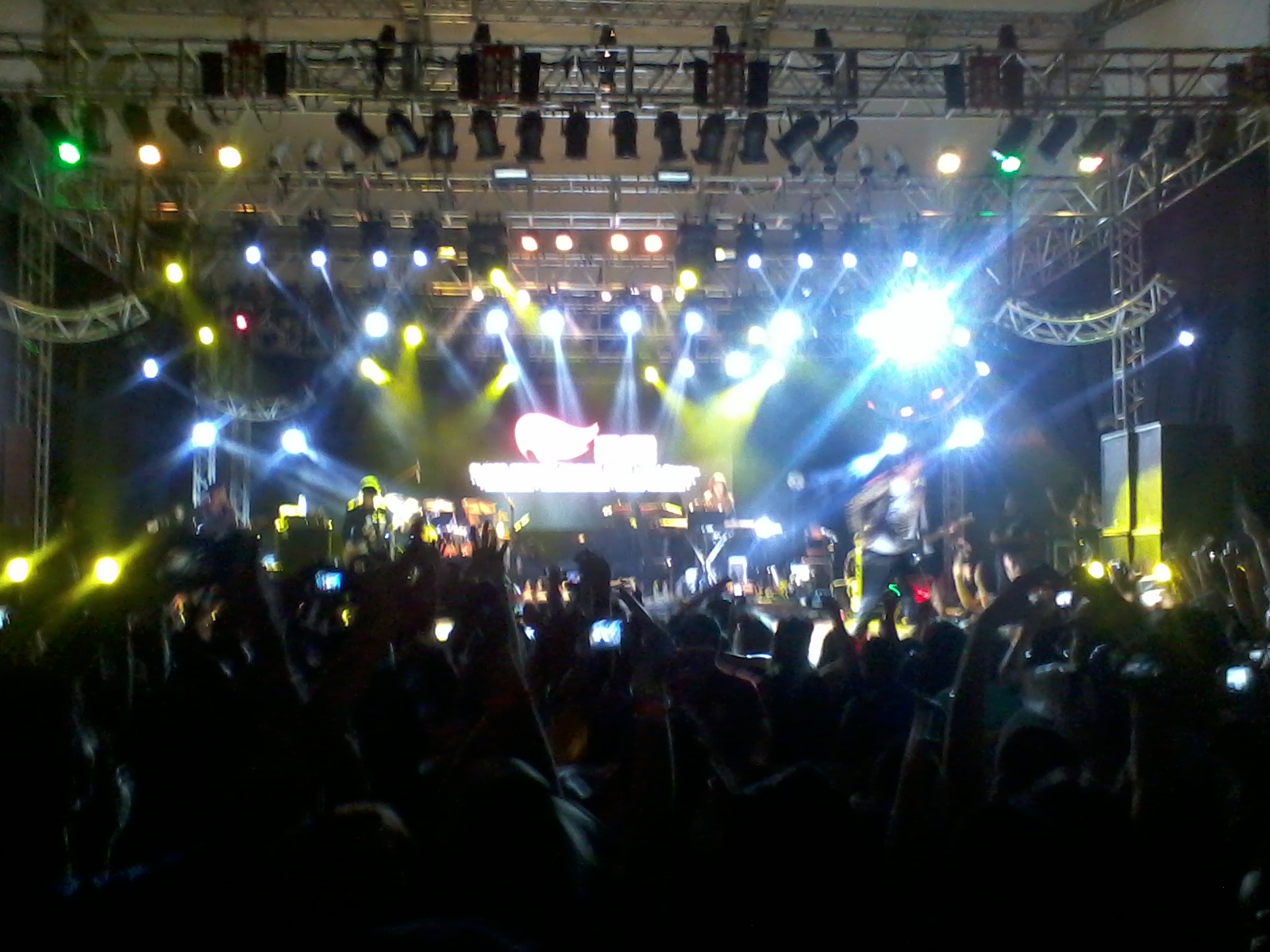 Anime Friends 2013 - Stage